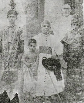 Early 20th century Knanaya couple in traditional wedding attire and wedding crowns with Kottayam bishop.